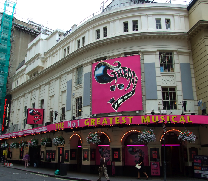 Picadilly Theatre, London